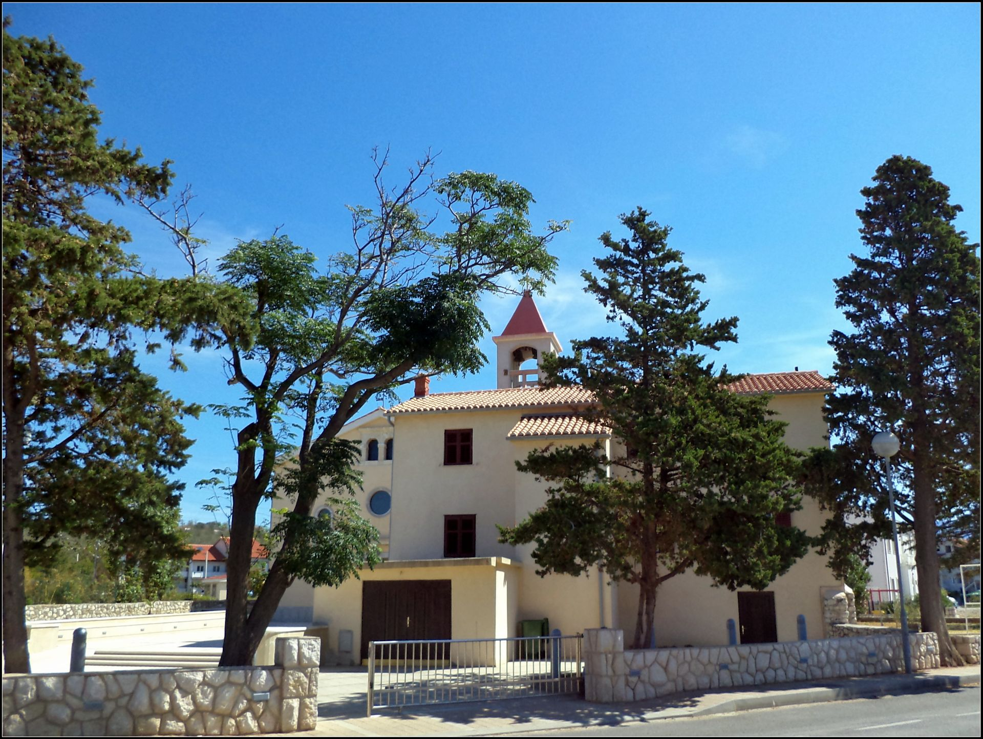 Church of St. John the Baptist, Lopar.